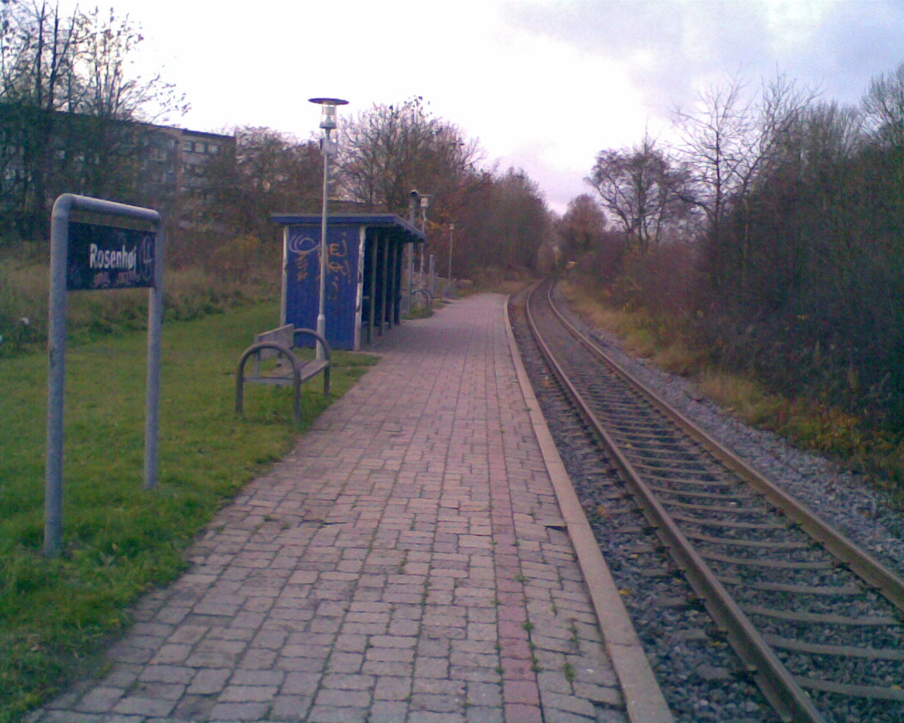 Rosenhøj Station, Århus, Denmark